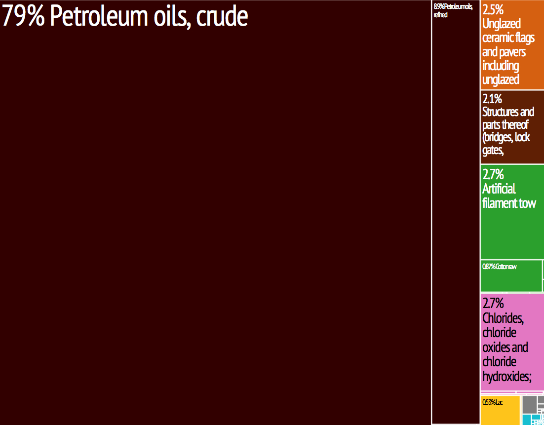 Chad Export Treemap from MIT Harvard Economic Observatory